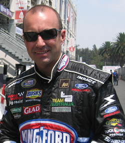 Marcos Ambrose posing with a fan at the 2008 NASCAR Nationwide Series event at Mexico City